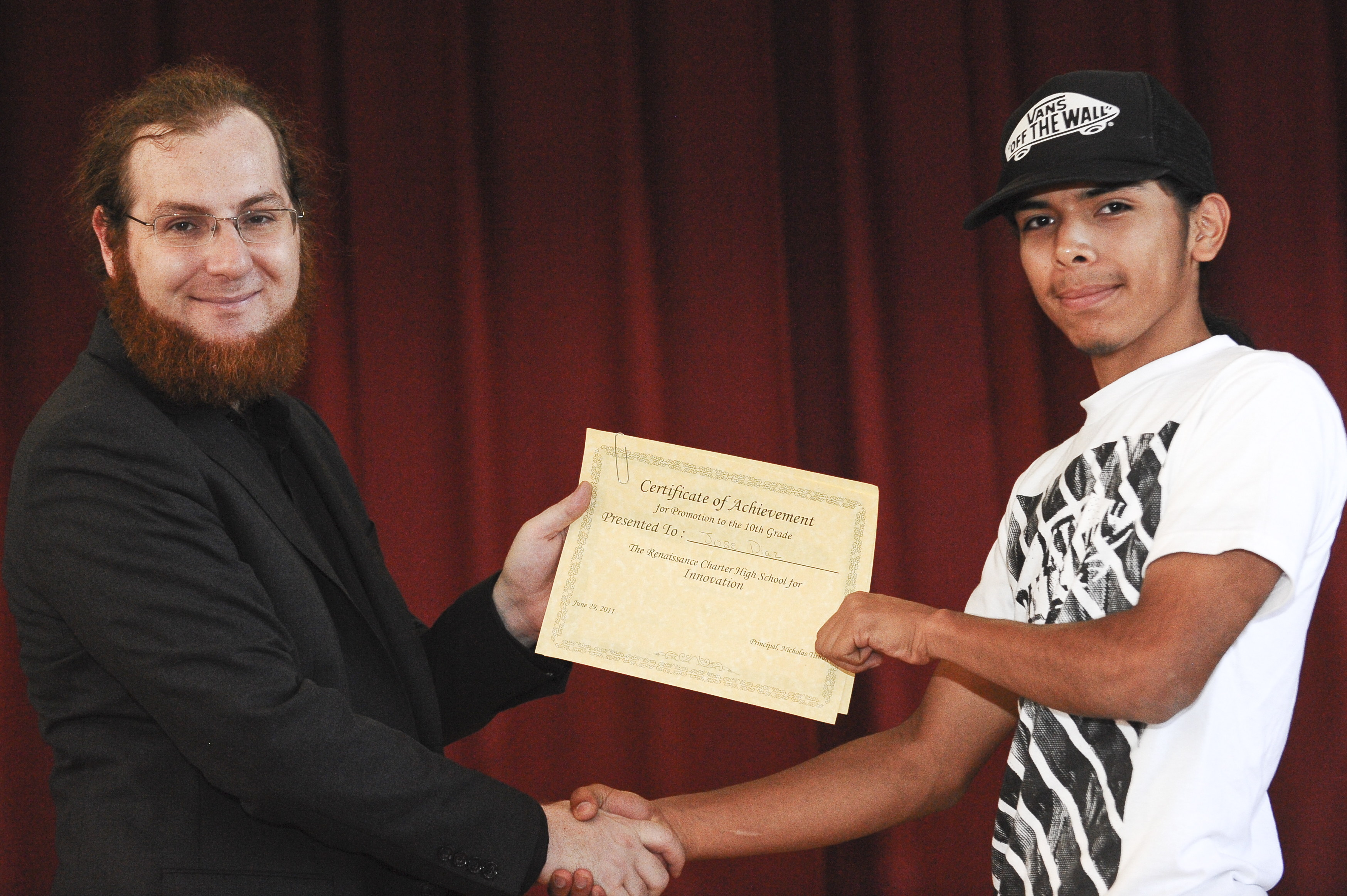 deviantart fandom wiki